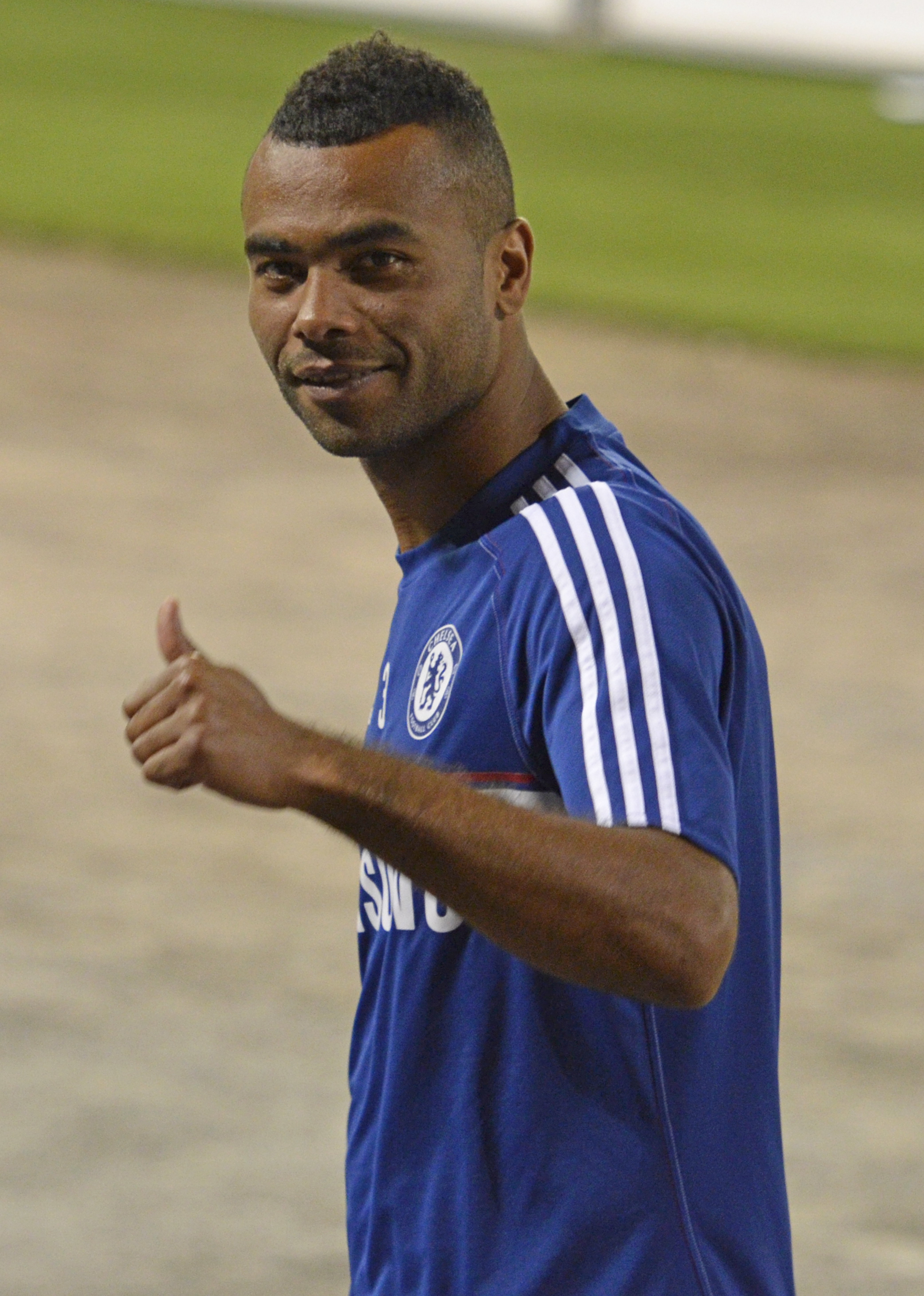 Ashley_Cole_Chelsea vs AS-Roma 10AUG2013